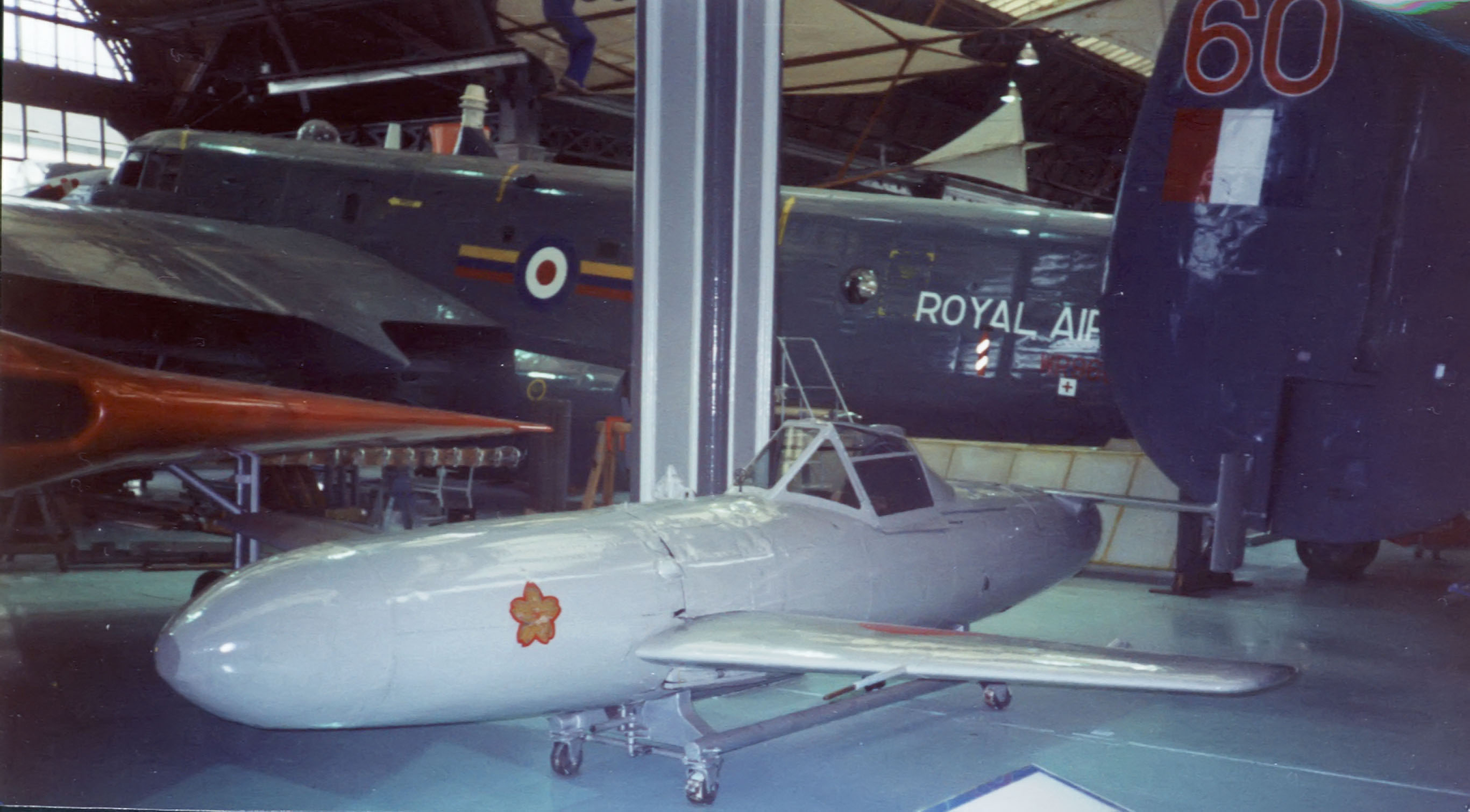 Japanese (unused) kamikaze airplane in the Museum of Science and Industry in Manchester, United Kingdom. On the background you can see an RAF Avro Shackleton plane. According to Japanese Aircraft Survivors, it is a Yokosuka MXY-7 Baka. "Baka" was the US military name, short for "Bakatari" (fool). The Japanese name was Yokosuka MXY-7 Ohka.